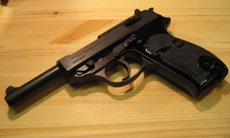 Walther P38, SN within a ten count of the last reportedly made. Already has the P1 aluminum frame.